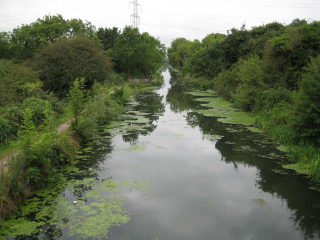 Grand Union Canal (Slough Arm) near Cowley (2)